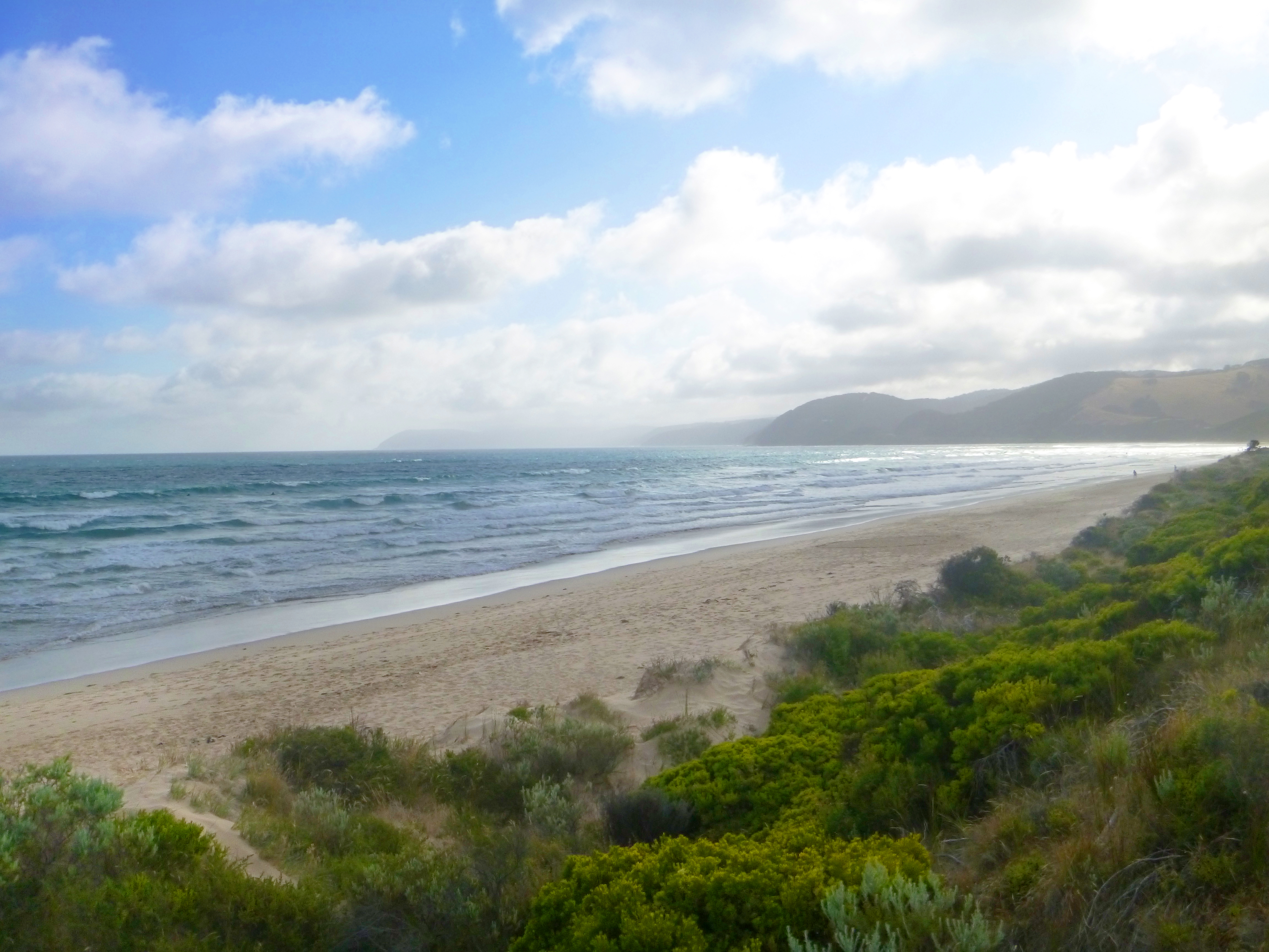 The beach in the town of Moggs Creek, Victoria.